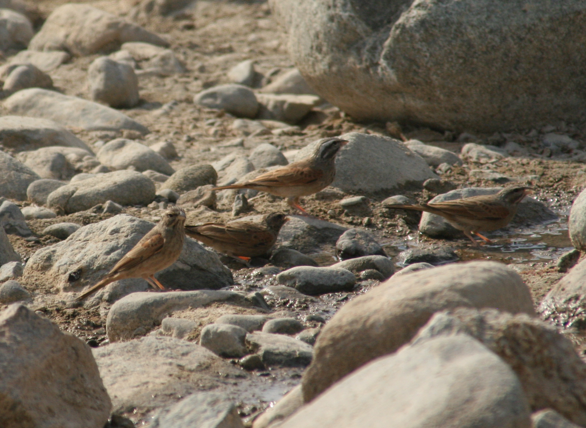 Striolated Buntings Emberiza striolata, Wadi Al Helo, Fujariah, United Arab Emirates